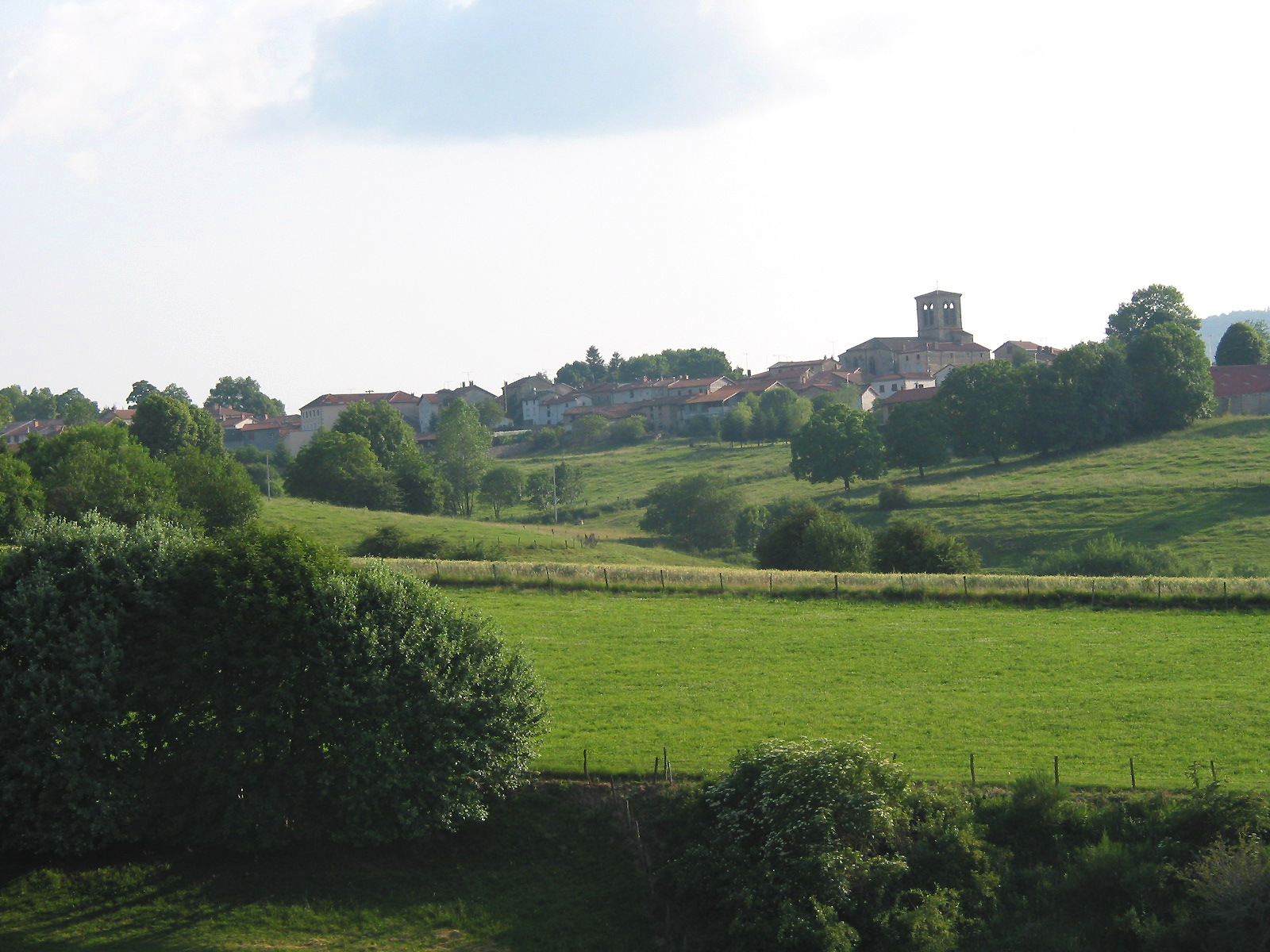 Fayet-Ronaye (Puy-de-Dôme - France), the village.